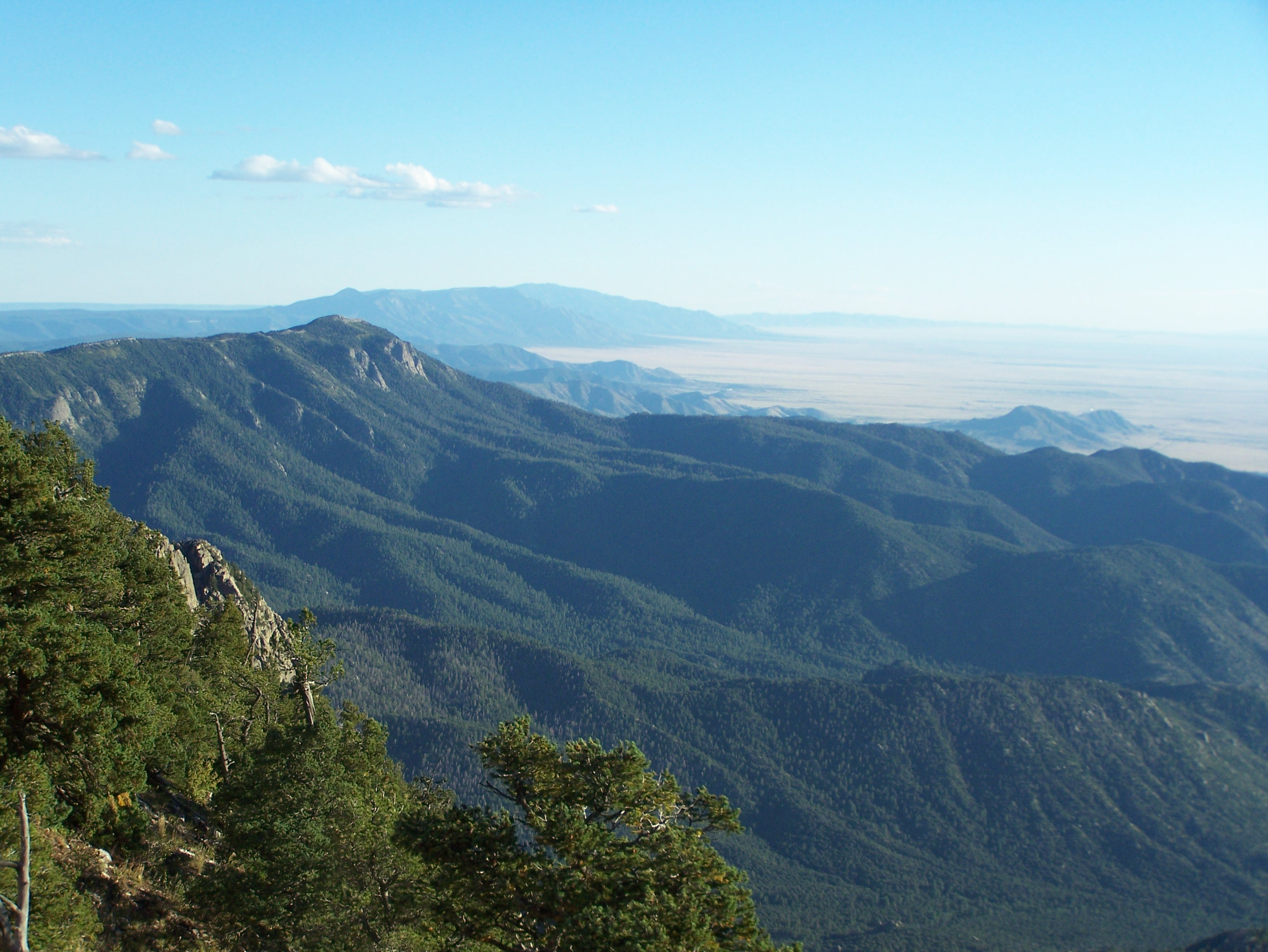 Looking south to the Manzano Mountains. (The Manzanita Mountains border to the north, then the Sandia Mountains.)